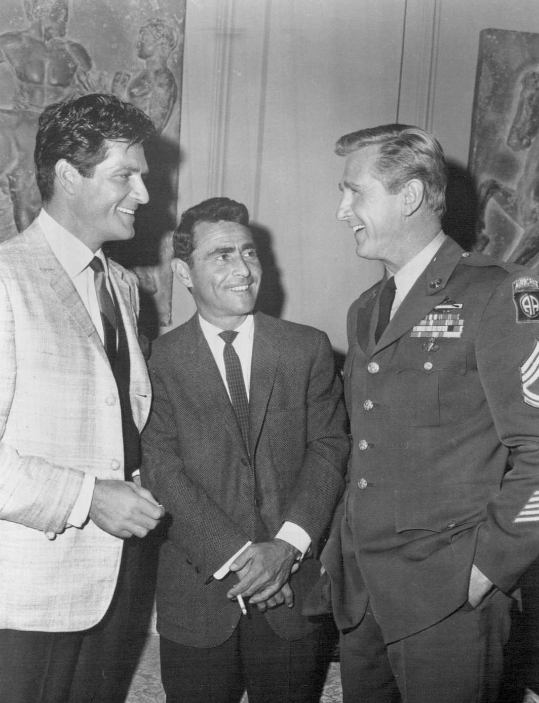 Photo of Hugh O'Brian, Rod Serling and Lloyd Bridges discussing the Chrysler Theater presentation Exit From a Plane in Flight. O'Brian and Bridges appeared in the presentation, while Serling wrote the drama.